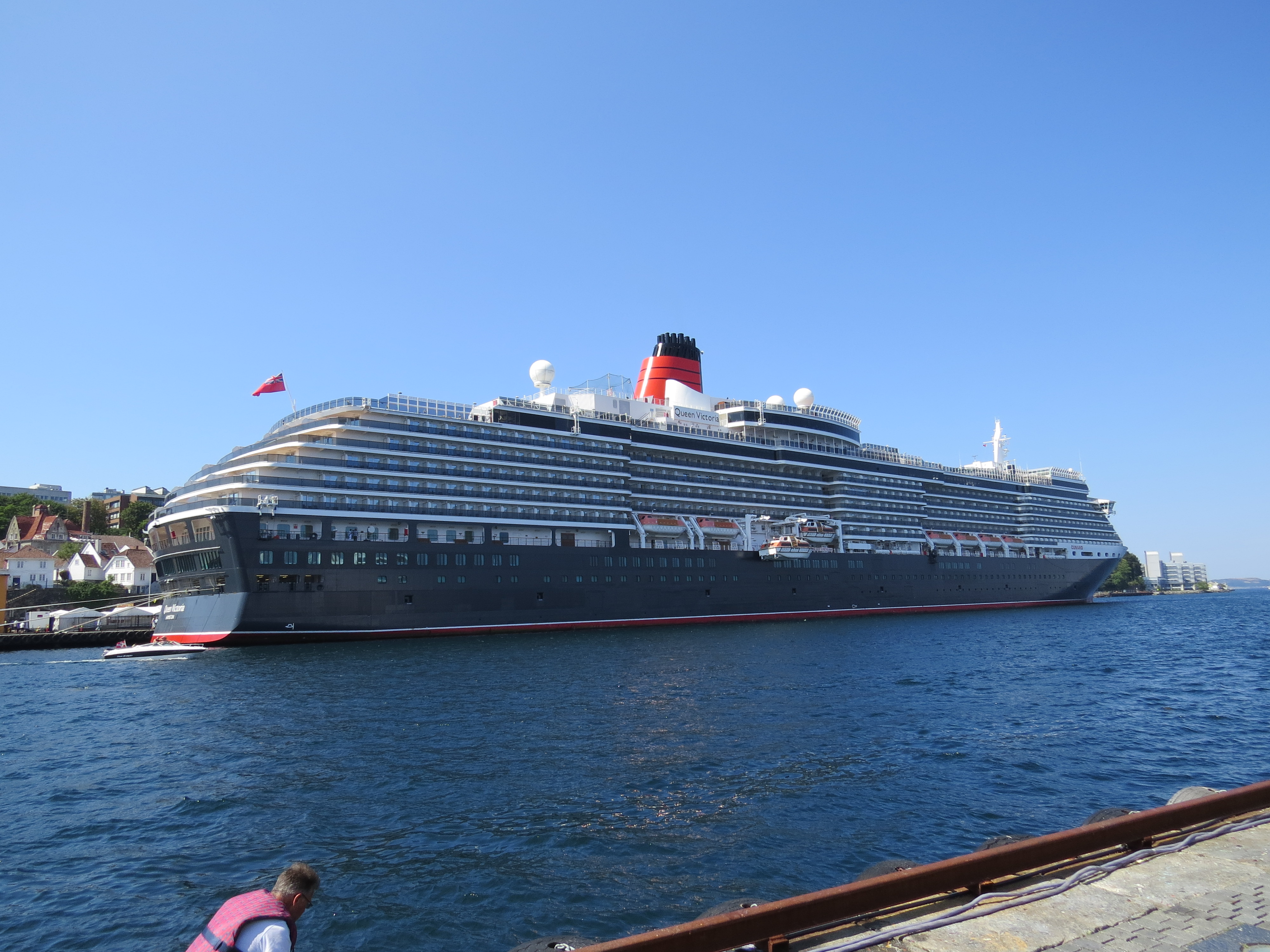 MS Queen Victoria anchored in Stavanger Norway